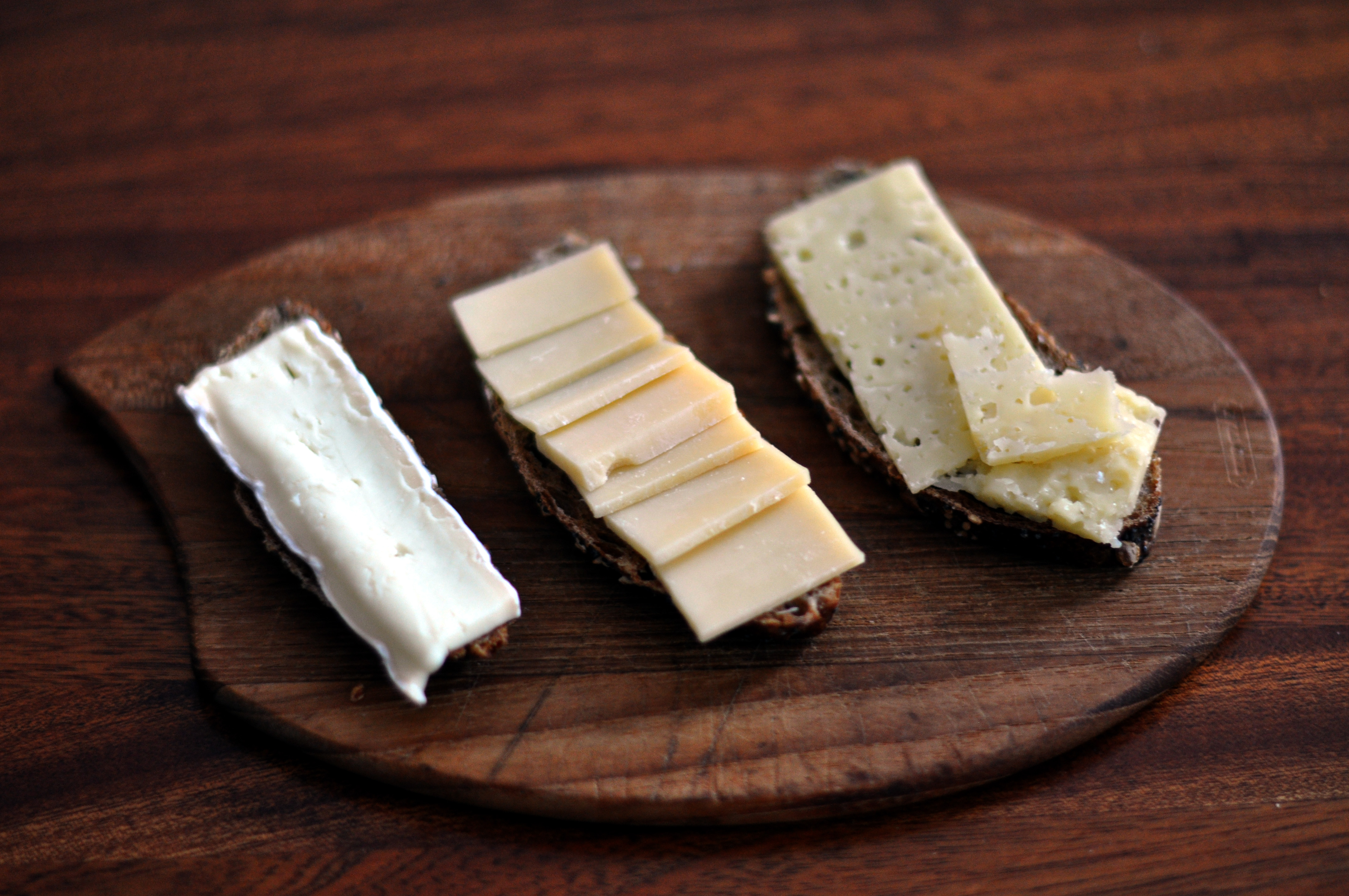 Skruebrød med brie, Prima Donna og Präst-ost (Screw bread with brie, Prima Donna and Prast cheese)